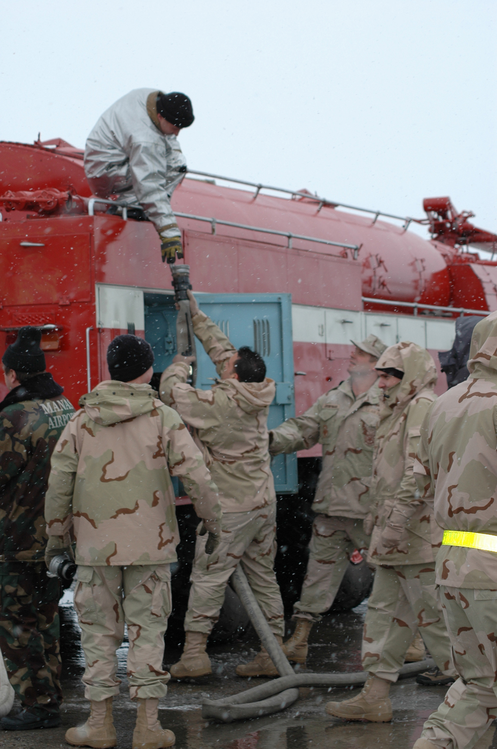 Staff Sgt. Vincent Anselmo, 376th AEW fire fighter, hands a fire hose to Stas Suleymanov, a fire fighter with the Manas International Airport. In this exercise, the Kyrgyz fire truck will receive water pumped from the 376th AEW coalition fire truck. Sergrant Anselmo is deployed from the 31st Civil Engineer Squadron Fire Deptartment, Aviano Air Base, Italy. The fire engine visible in the picture is an AA-60. (U.S. Air Force Photo/Master Sgt. Daniel Nathaniel) VIRIN: 070225-F-6504N-001